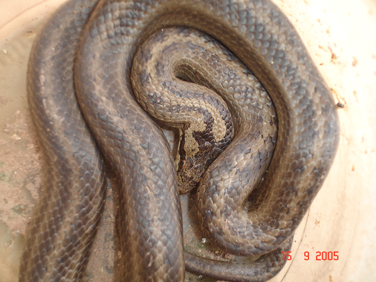 Coronella austriaca found in Pale, Bosnia and Herzegovina.